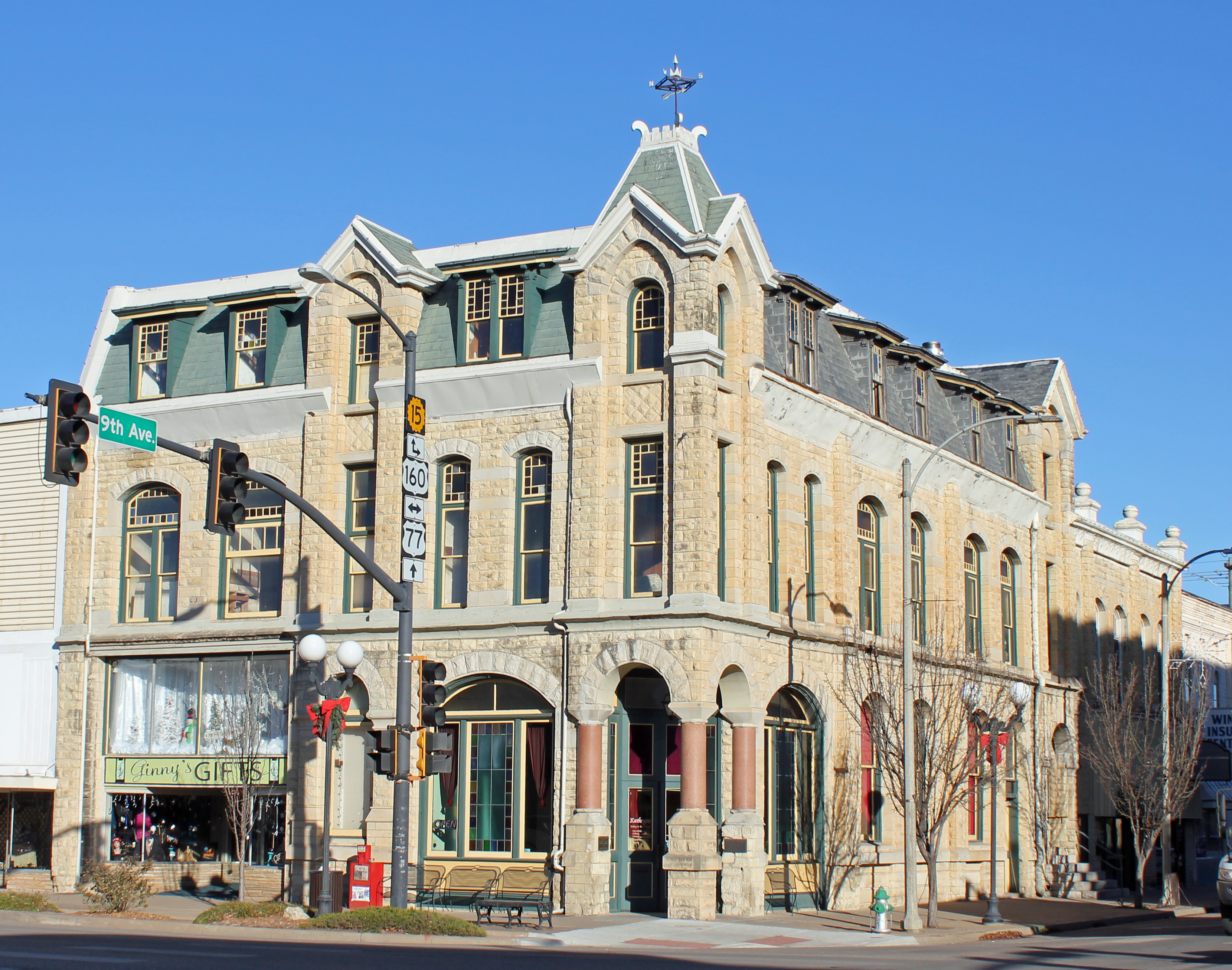 The Cowley County National Bank Building, located at 820-822 Main Street in Winfield, Kansas. The property is listed on the National Register of Historic Places.